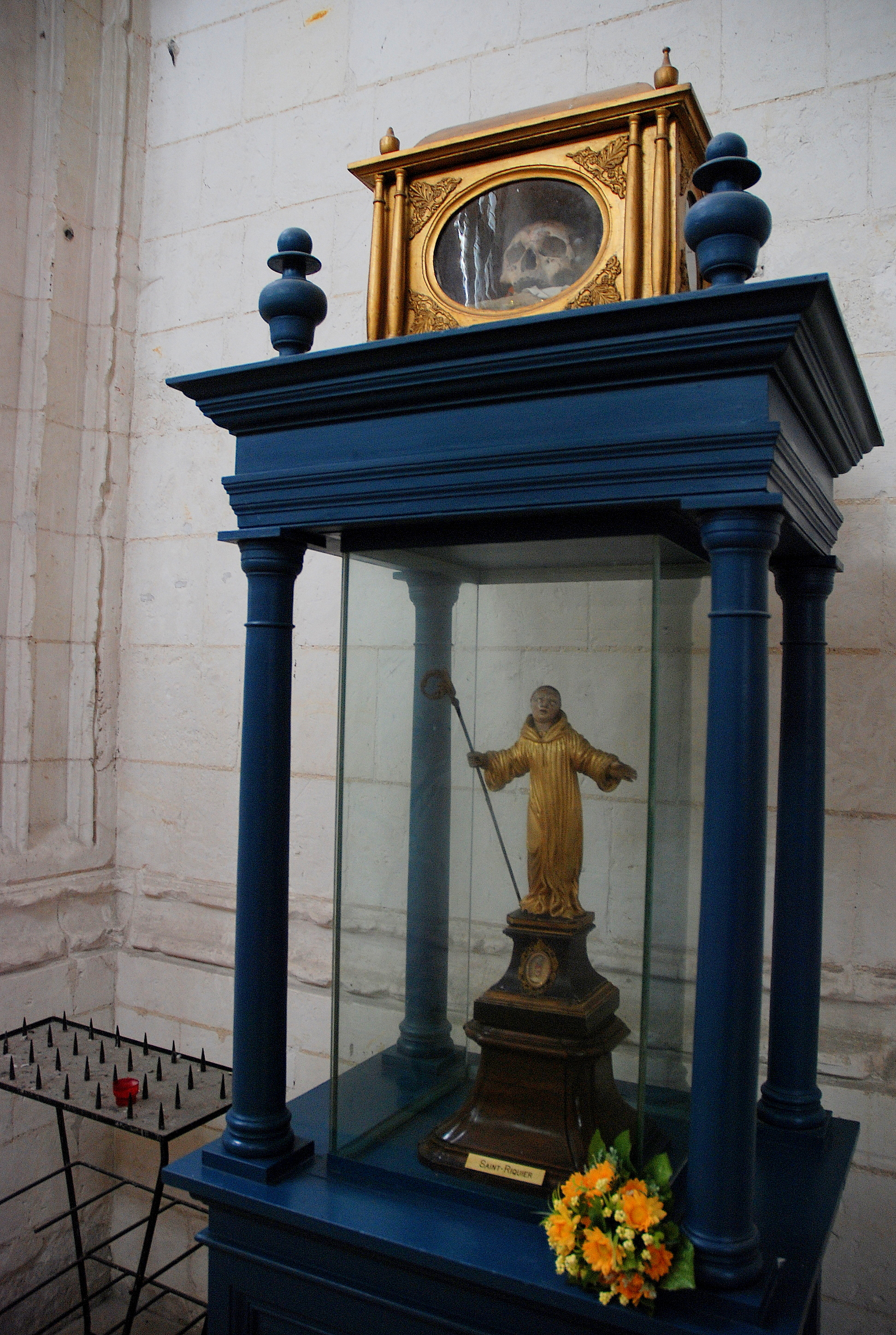 relique de saint Riquier dans l'abbatiale de Saint-Riquier, Somme, France.